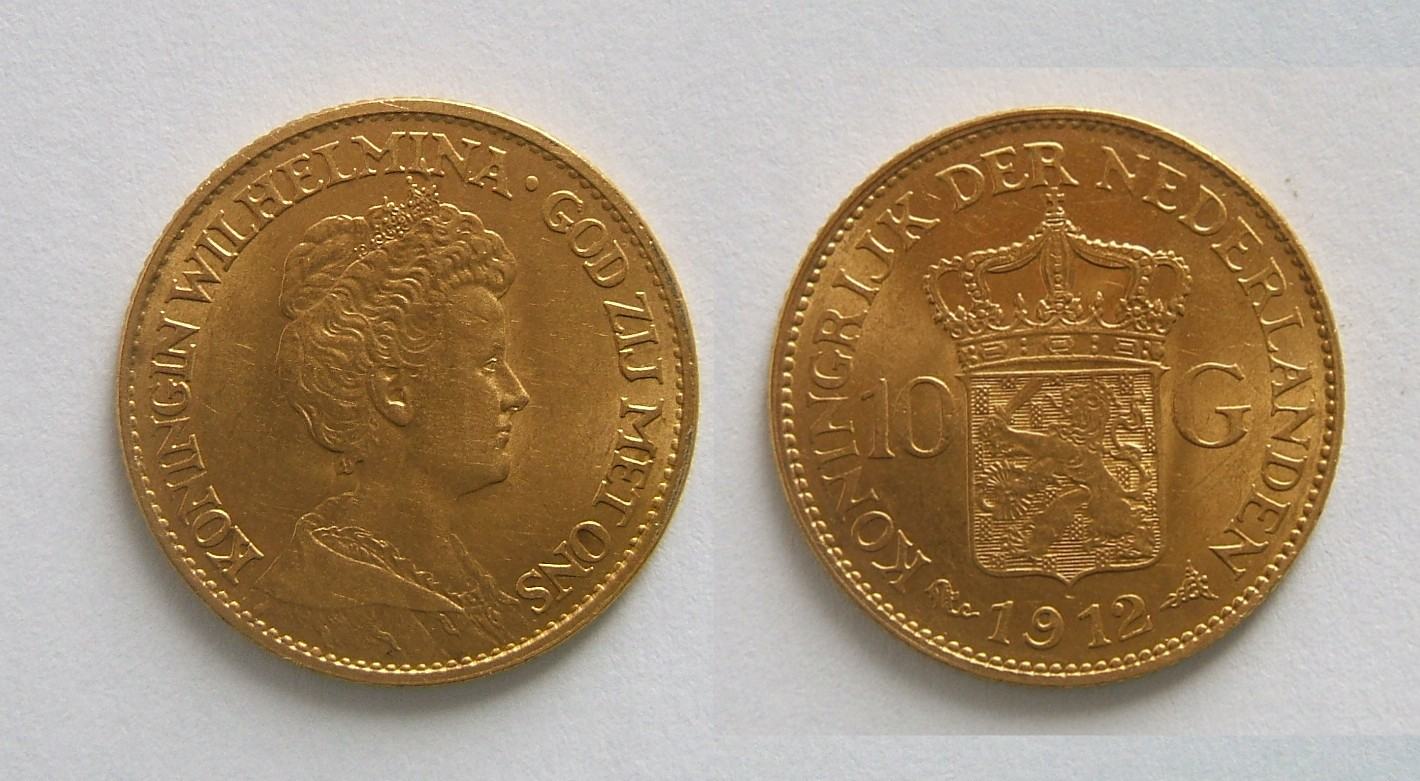 Ten Dutch guilders coin from 1912 (although it cannot be ruled out that it is a reproduction). This is not valid currency anymore. The text on the side shown on the left translates as "Queen Wilhelmina - May God be with us". The text on the right reads "Kingdom of the Netherlands".